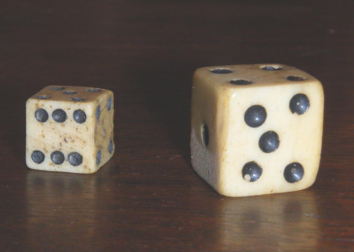 antique ivory dice